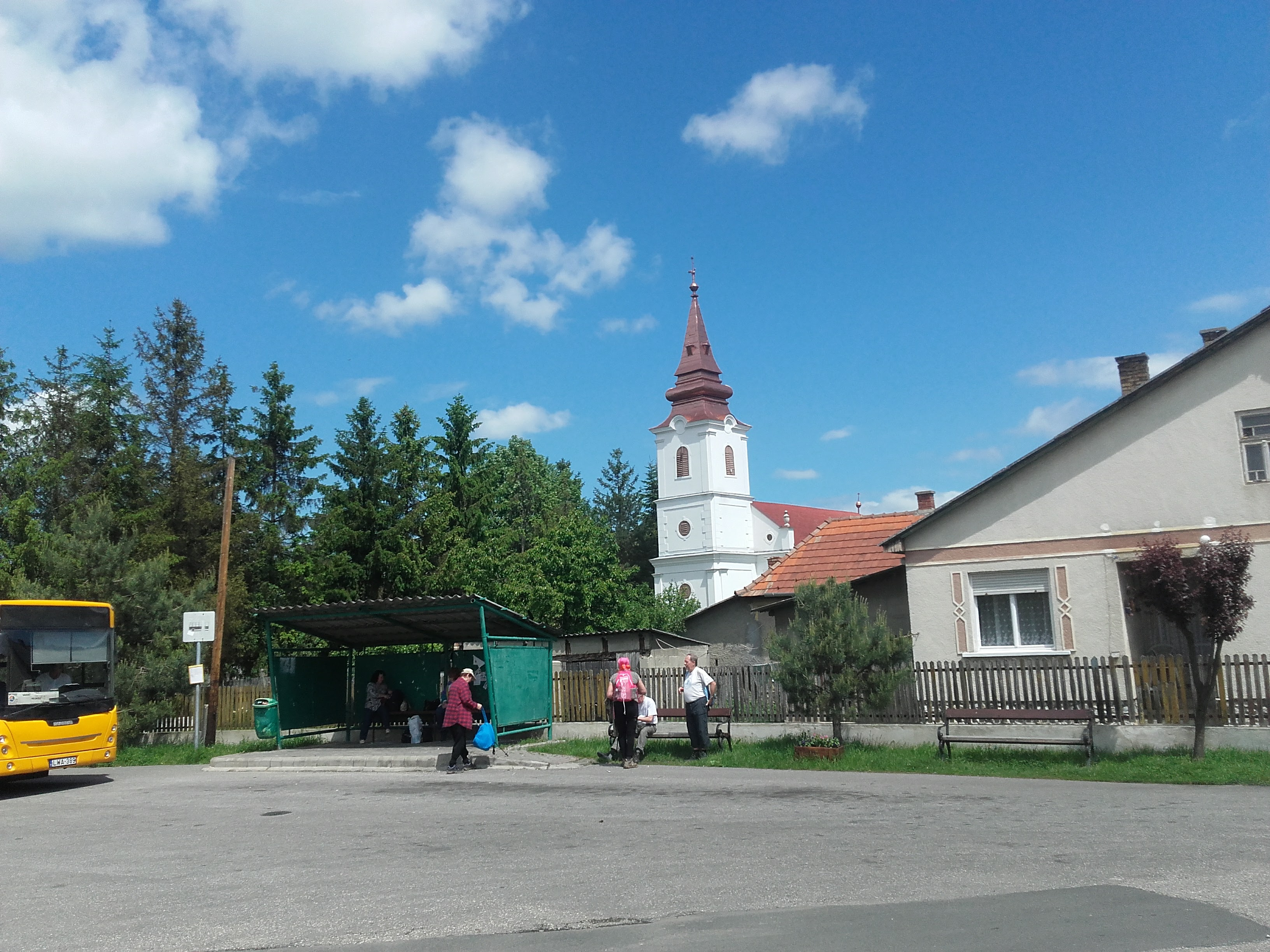 The main square of Varbó, Hungary, with the local Baroque Reformed church, and a bus stop